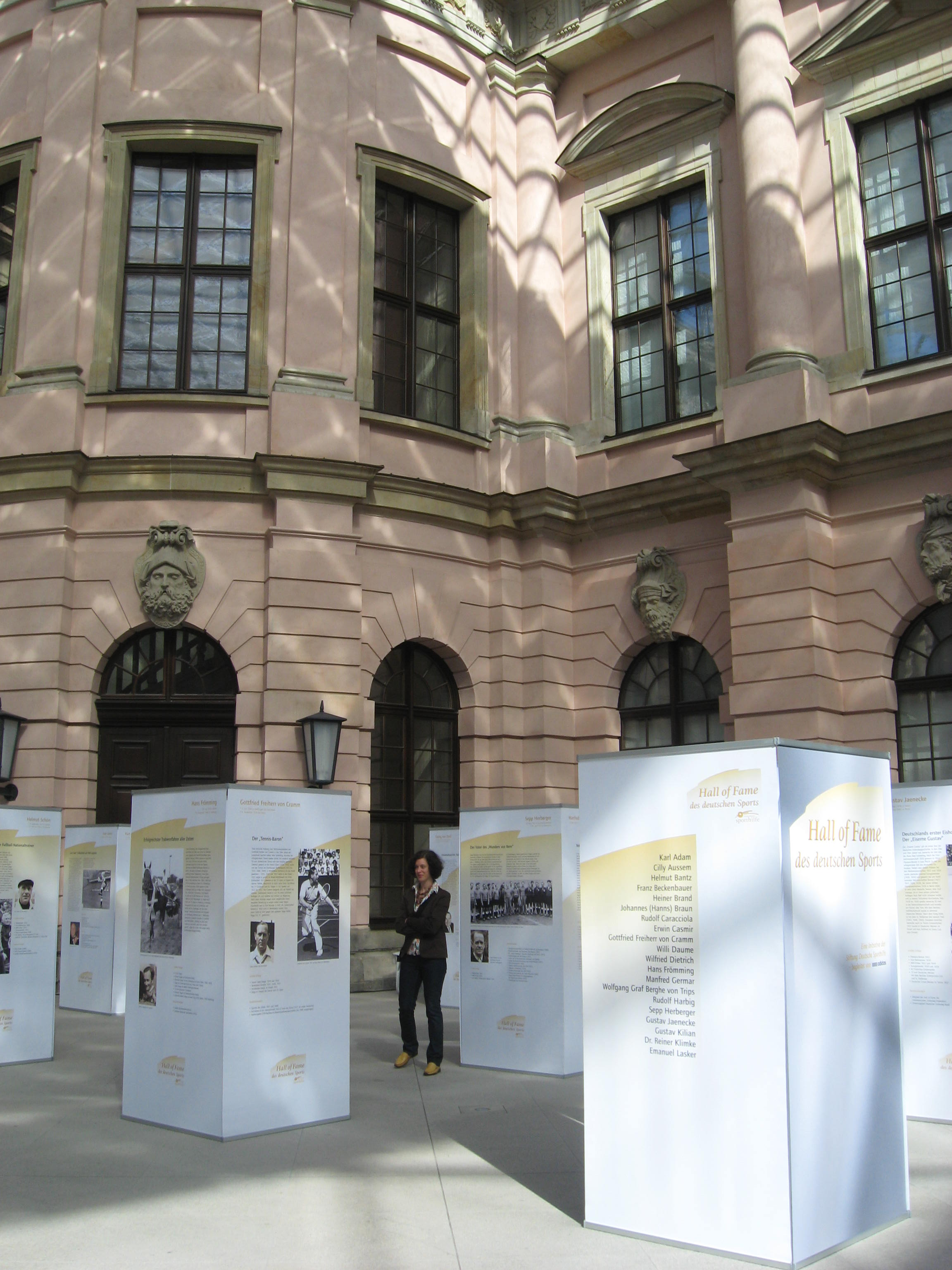 'Hall of Fame des deutschen Sports' (Hall of Fame of German Sport). The Hall is a fictive one, the 40 tables will occasionally be presented as a travelling exhibition. The opening was celebrated at the Deutsches Historisches Museum (German Historical Museum), Berlin, on May 6, 2008.